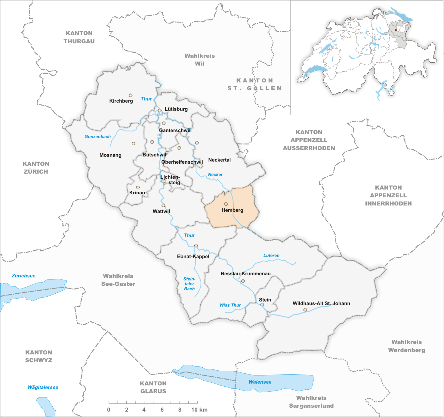 Municipality Hemberg